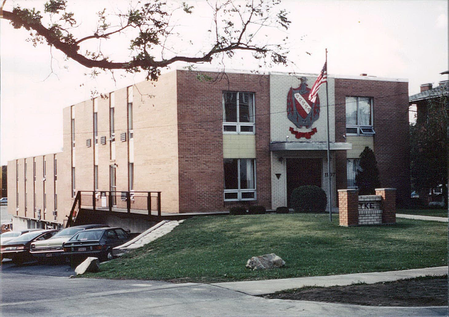 Old Chapter House at 1107 N. State Street